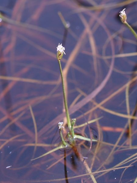 Yu Ito (2012) Aquatic plant surveys in the Mediterranean. Bulletin of Water Plant Society, Japan 97: 38-42.